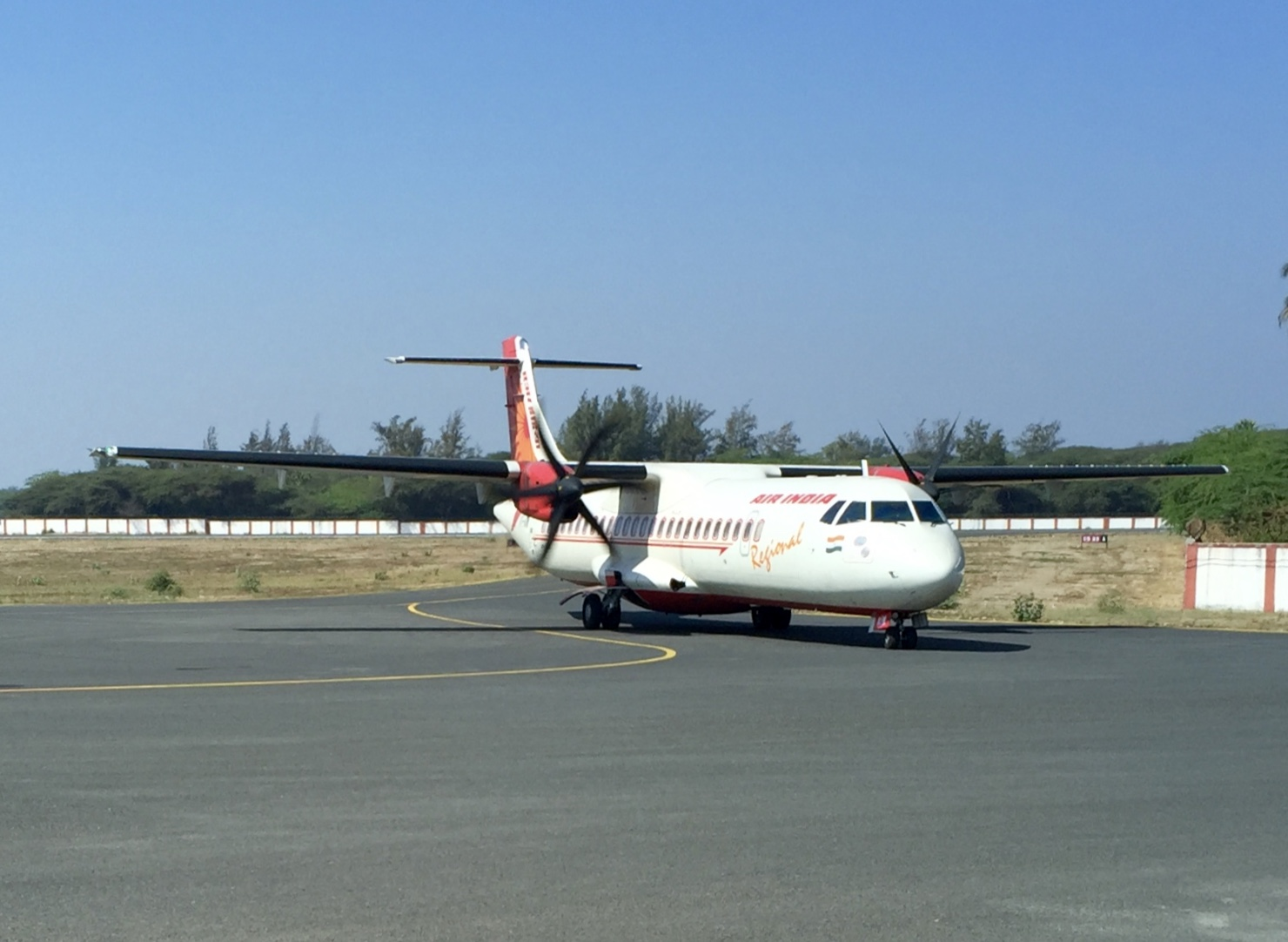 An Air India Regional ATR 72 taxying in at Diu Airport.